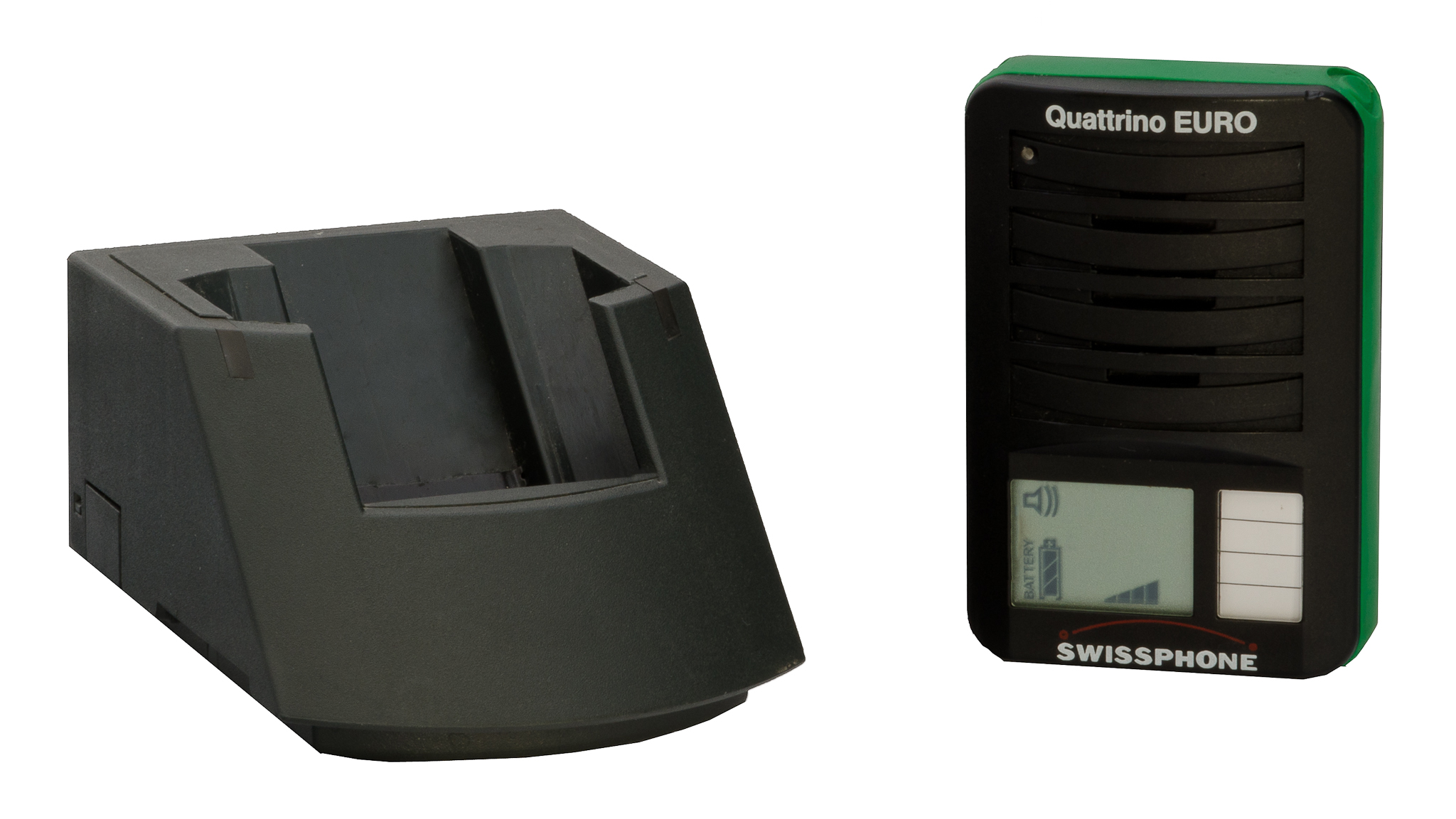 Swissphone Quattrino EURO RE428NT-16V with charger